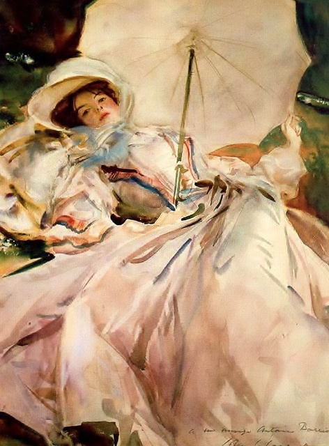 John Singer Sargent - Lady with Parasol 1900, watercolor, Abbey of Montserrat